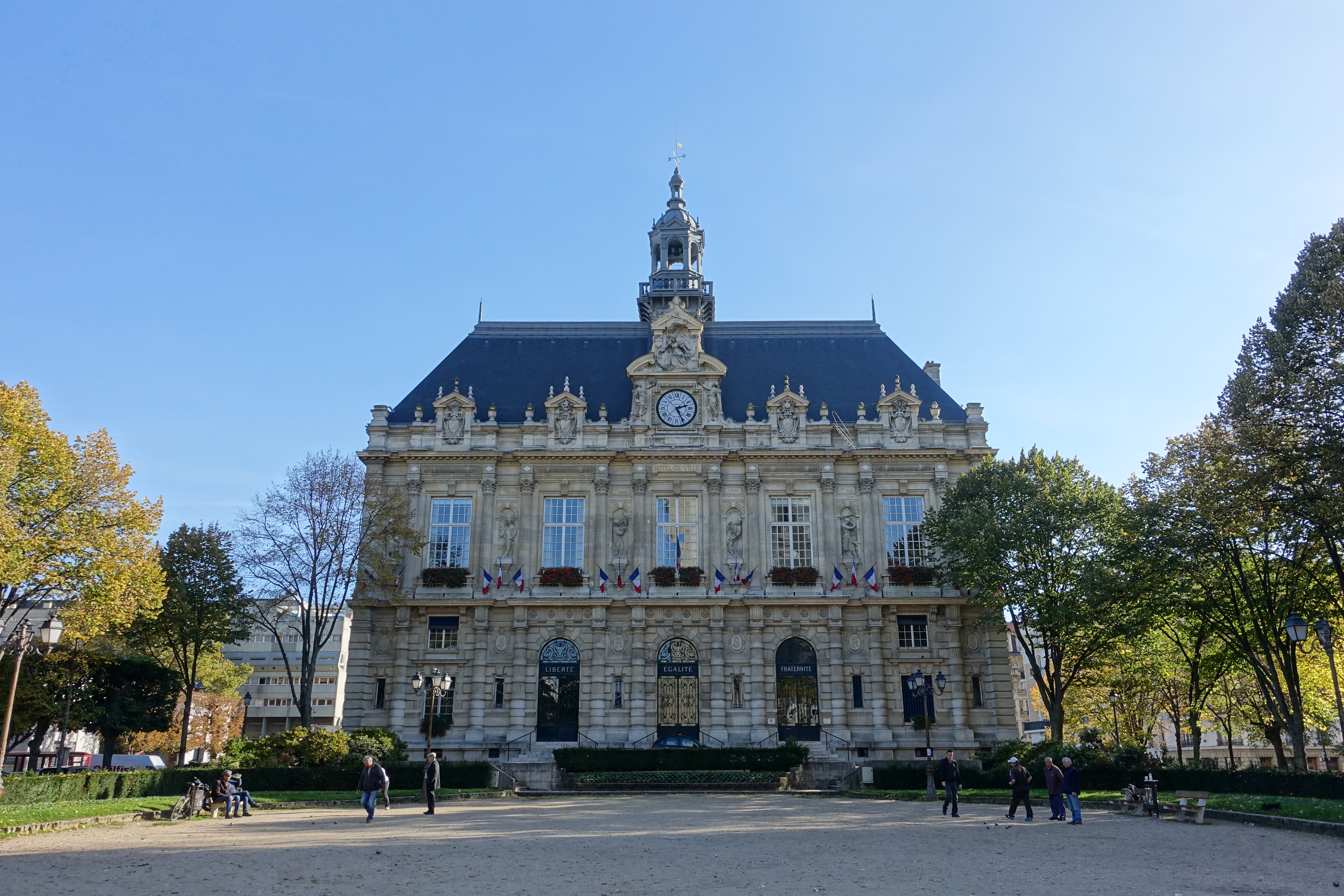 City Hall @ Ivry-sur-Seine